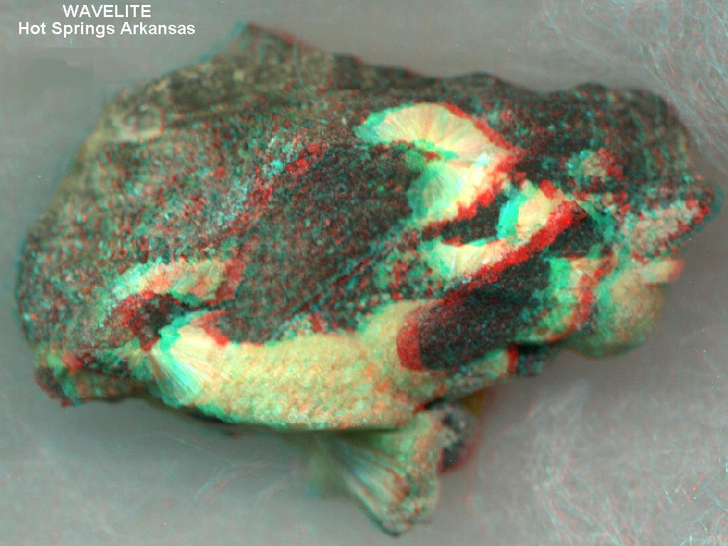 Wavellite, stereoscopic (3D) images produced by scanner. Hot Springs Arkansas anaglyph, red left